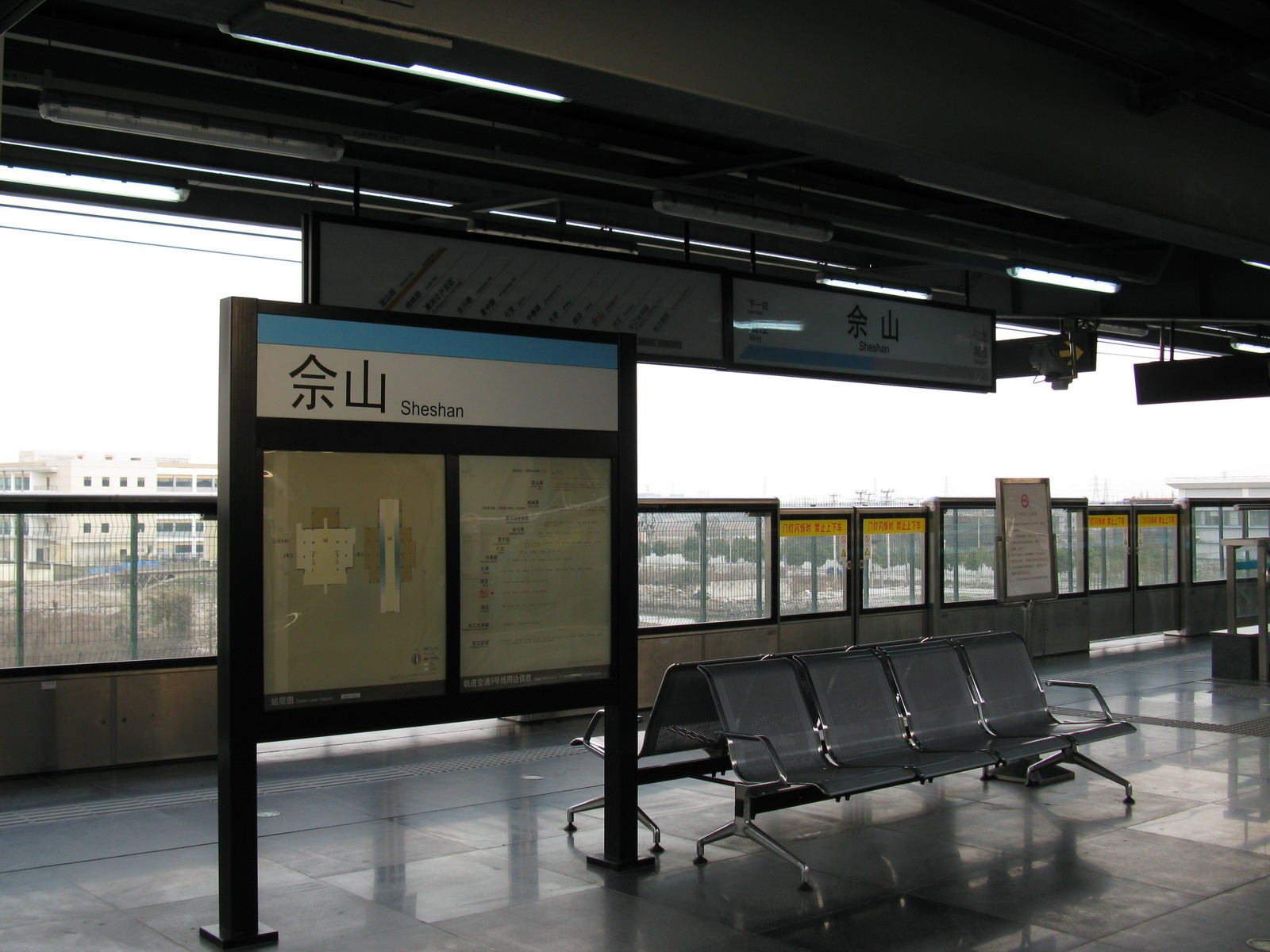 Line 9 Platform of Sheshan Station